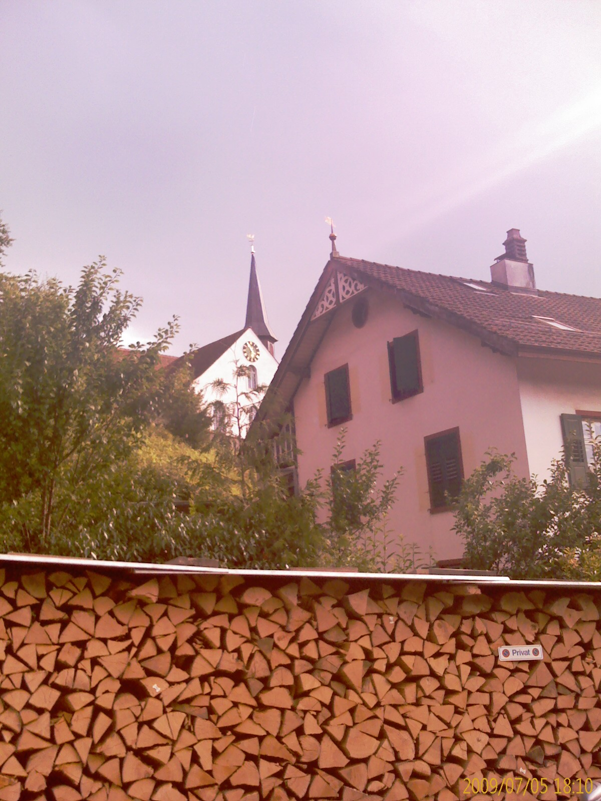 Church of Buus, canton of Basel-Country, SwitzerlandEsperanto: Preĝejo de Buus, Kantono Zuriko, Svislando